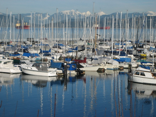 The Royal Vancouver Yatch Club and the Coastal Mountains. Taken from the base of Alma St, Kitsilano, Vancouver, BC.